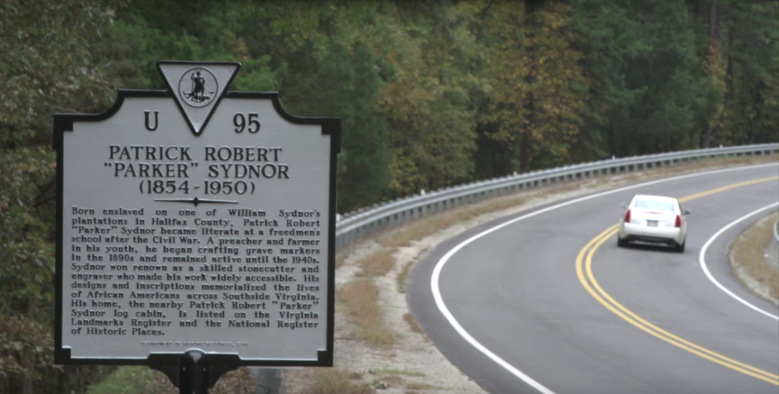 The Historic Highway Maker